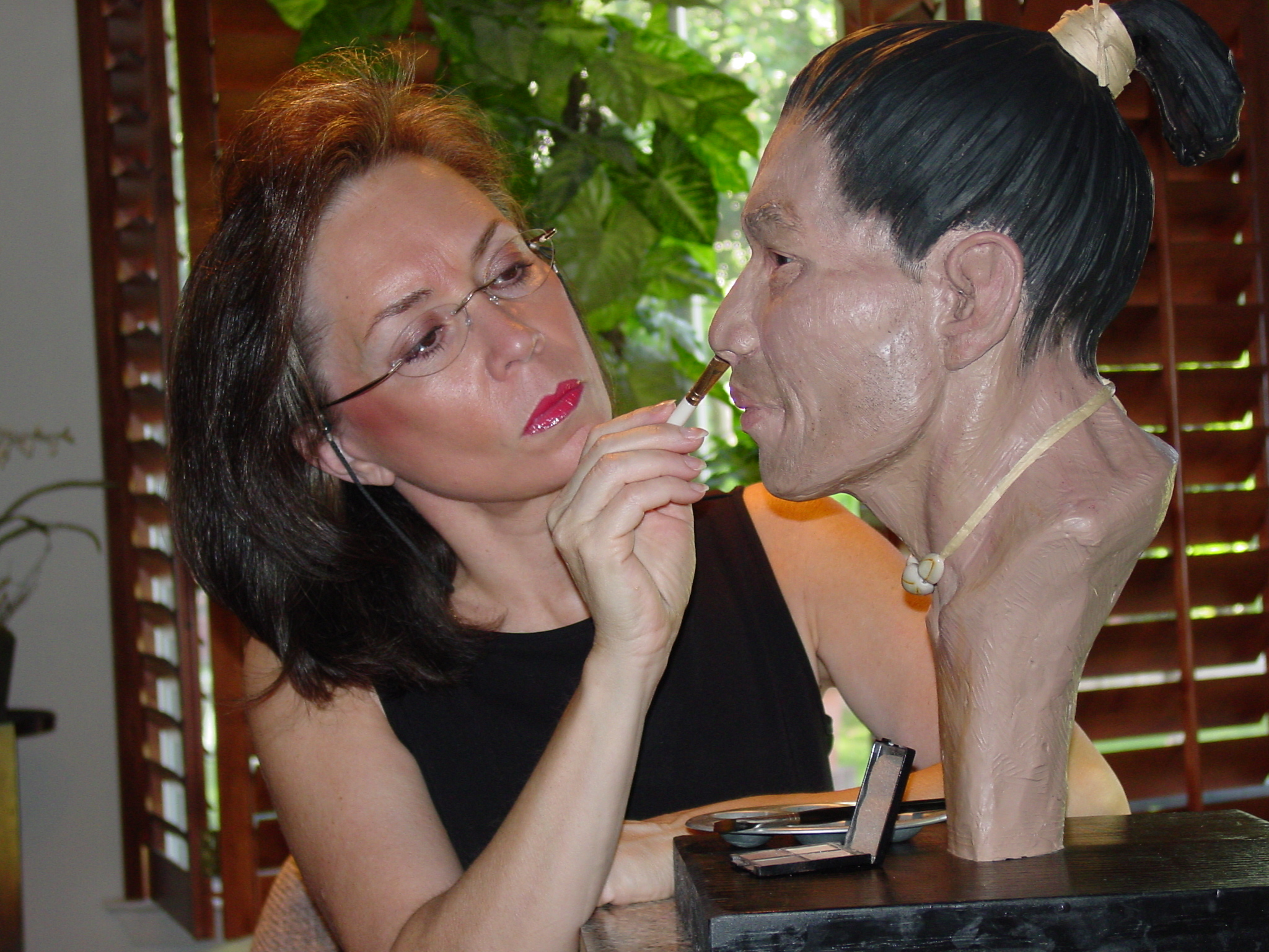 Picture of Karen T. Taylor with historical sculpture of Bo Man